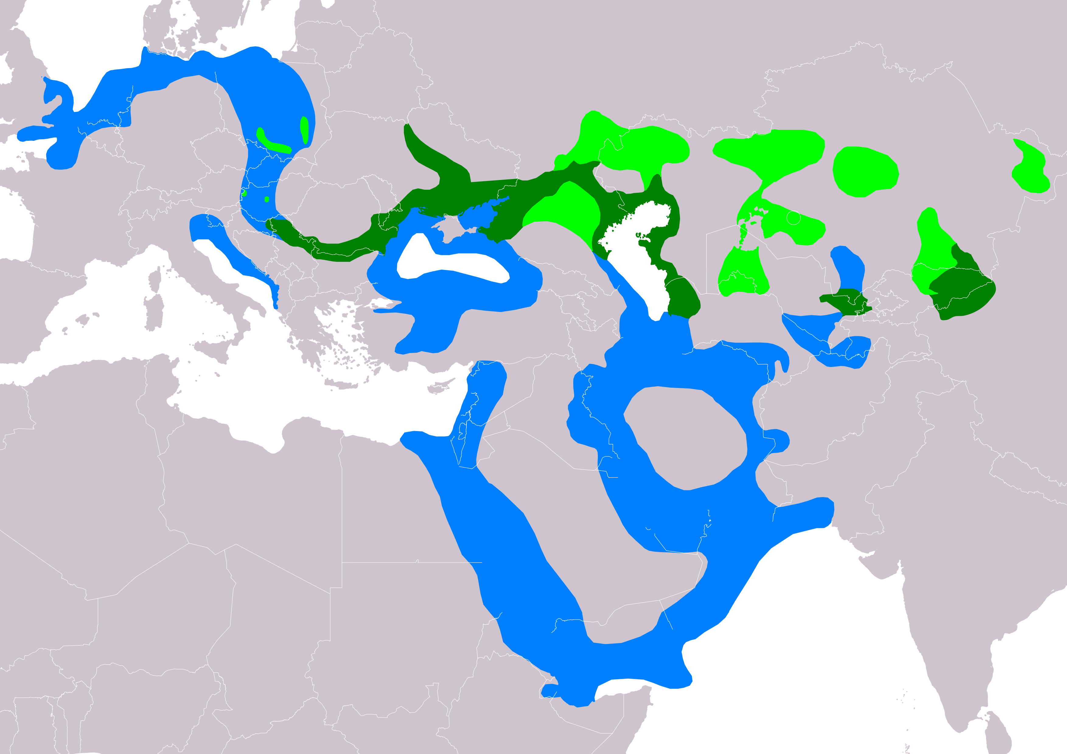 Distribution map of caspian gull (Larus cachinnans) according to IUCN version 2019-2 ; key: Legend: Extant, breeding (#00FF00), Extant, resident (#008000), Extant, non-breeding (#007FFF)